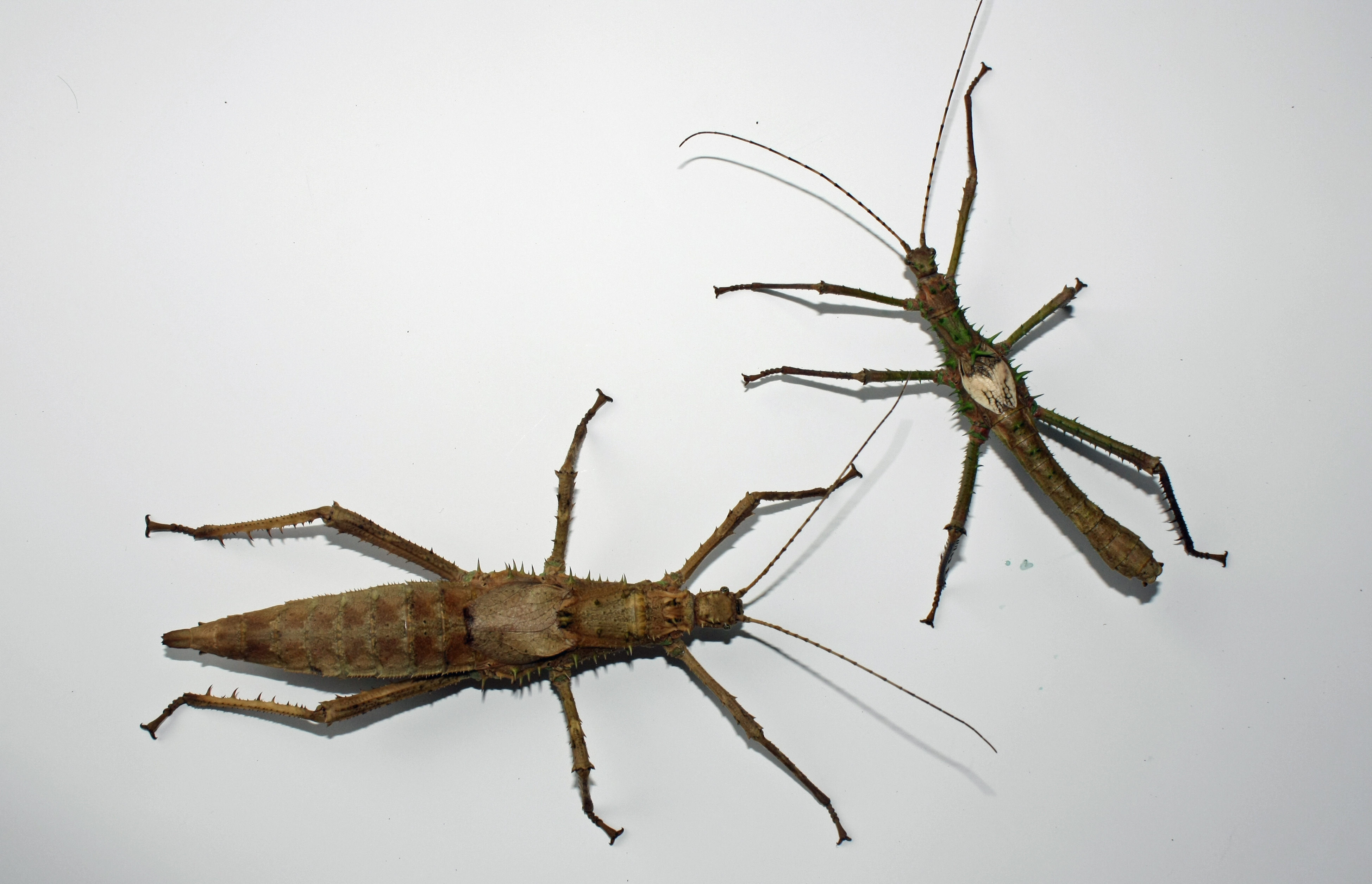 Pair of Gray's Haaniella (Haaniella grayii), female left, male right